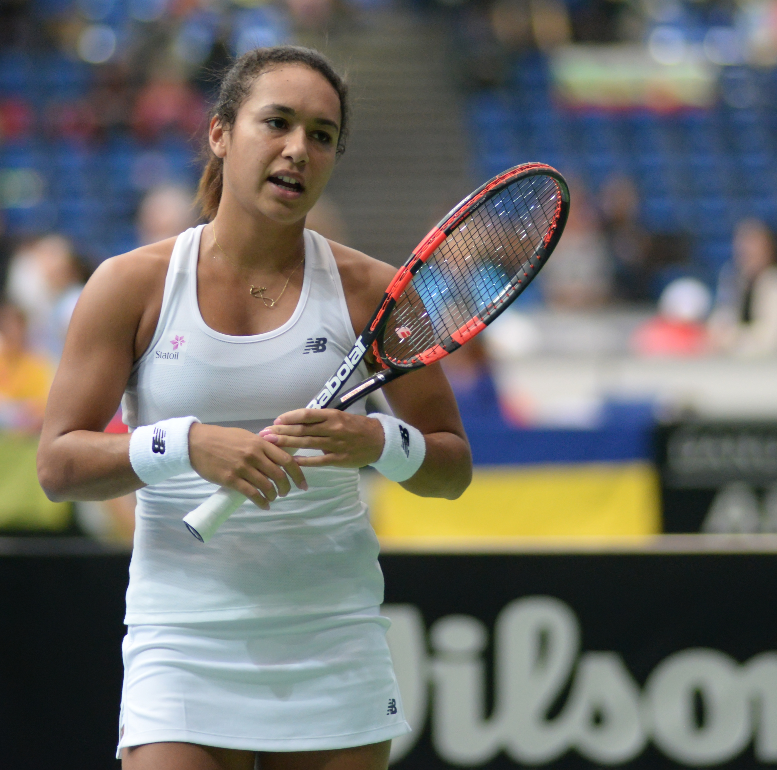 Heather Watson at the 2015 Fed Cup